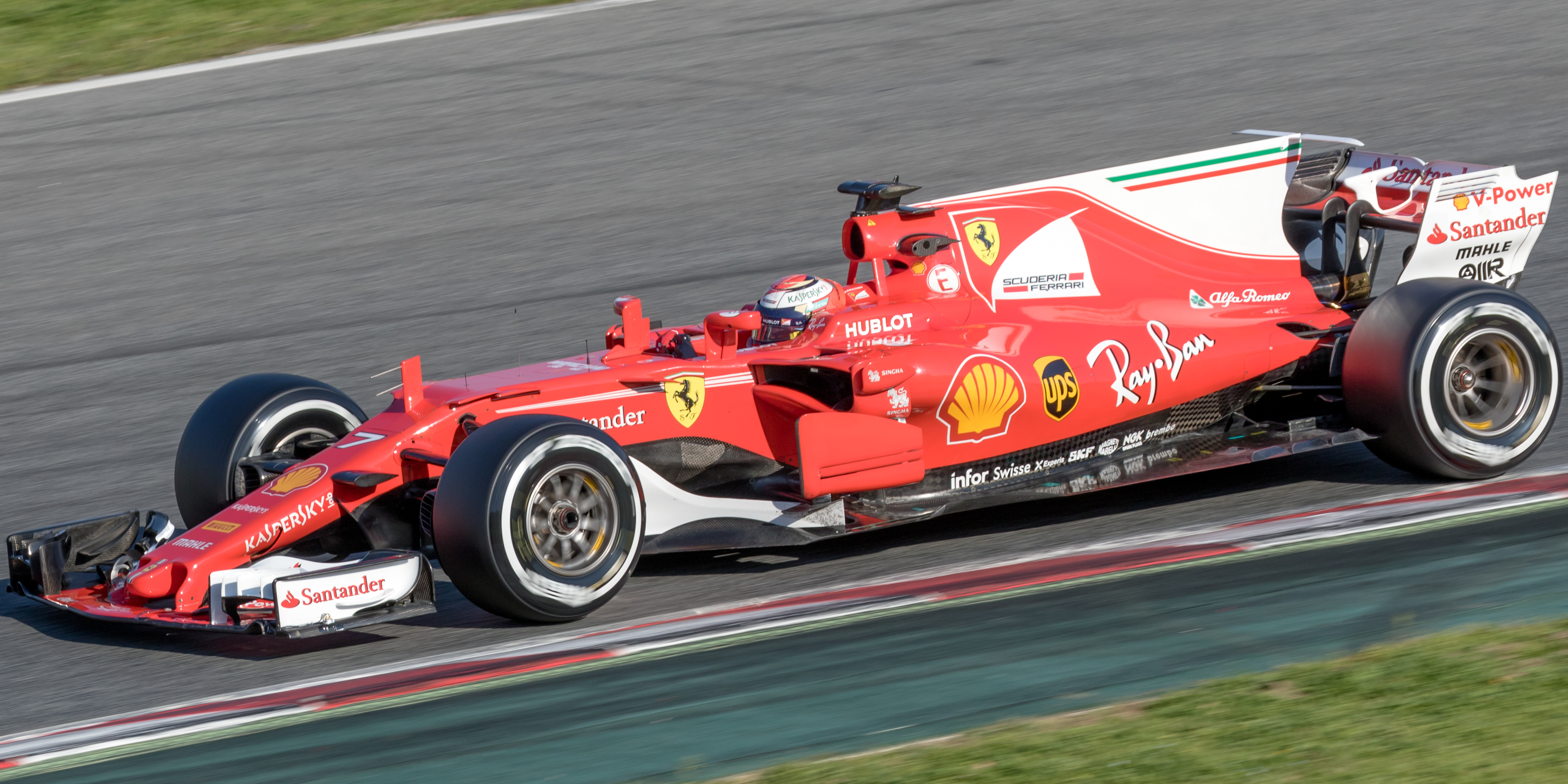 Formula One 2017 Catalonia test (27 February-2 March): Kimi Räikkönen (Ferrari)